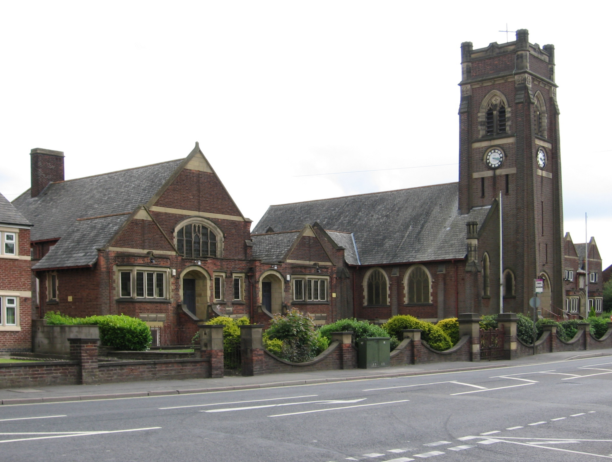 Alfreton - Watchorn School and Church